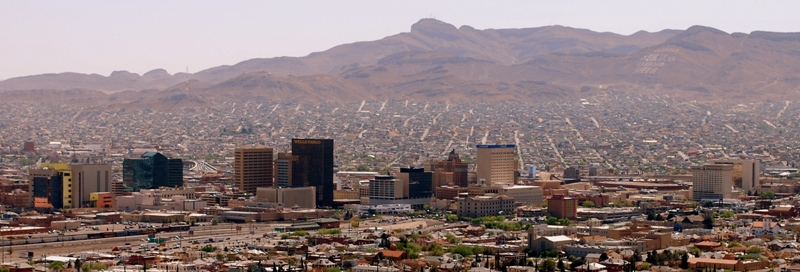 Skyline of El Paso as of March 25, 2009